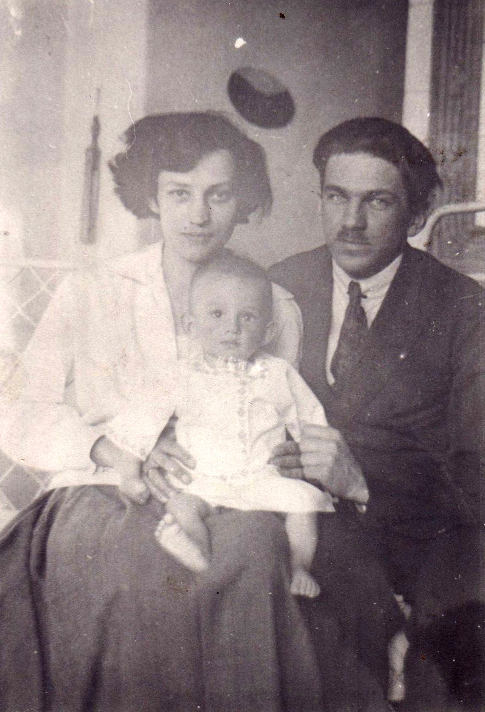 Maria Vetulani de Nisau (1898−1944), Bohdan de Nisau (1896−1943) and their son Witold (1924−1998).